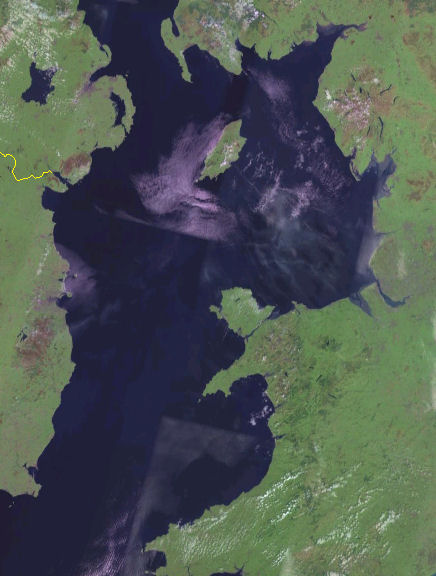 Satellite image of the Irish Sea from the NASA Blue Marble project.